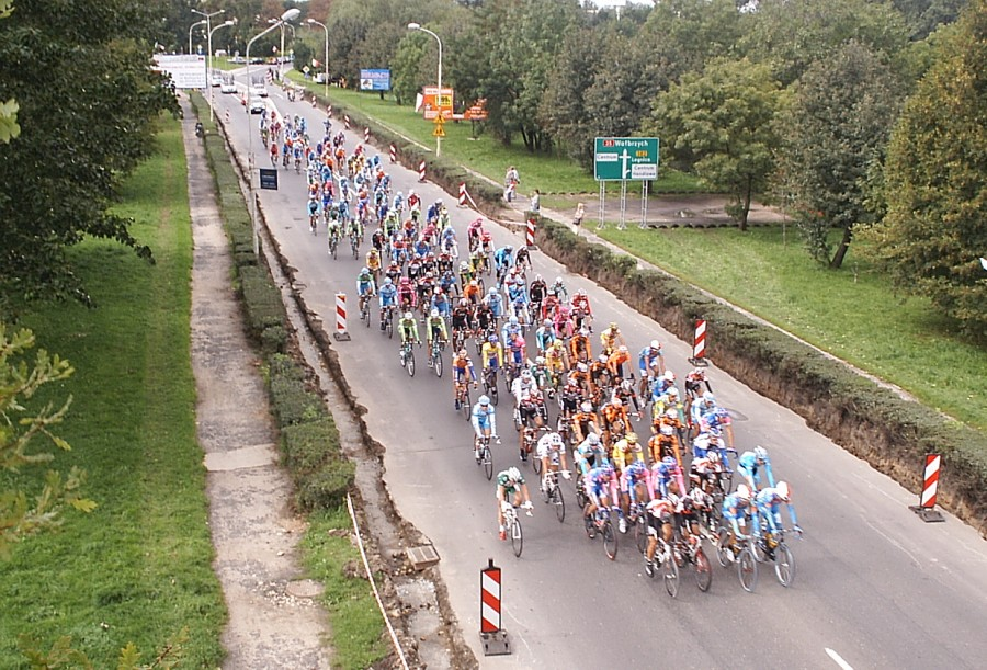 Tour de Pologne 2006 in Świdnica.